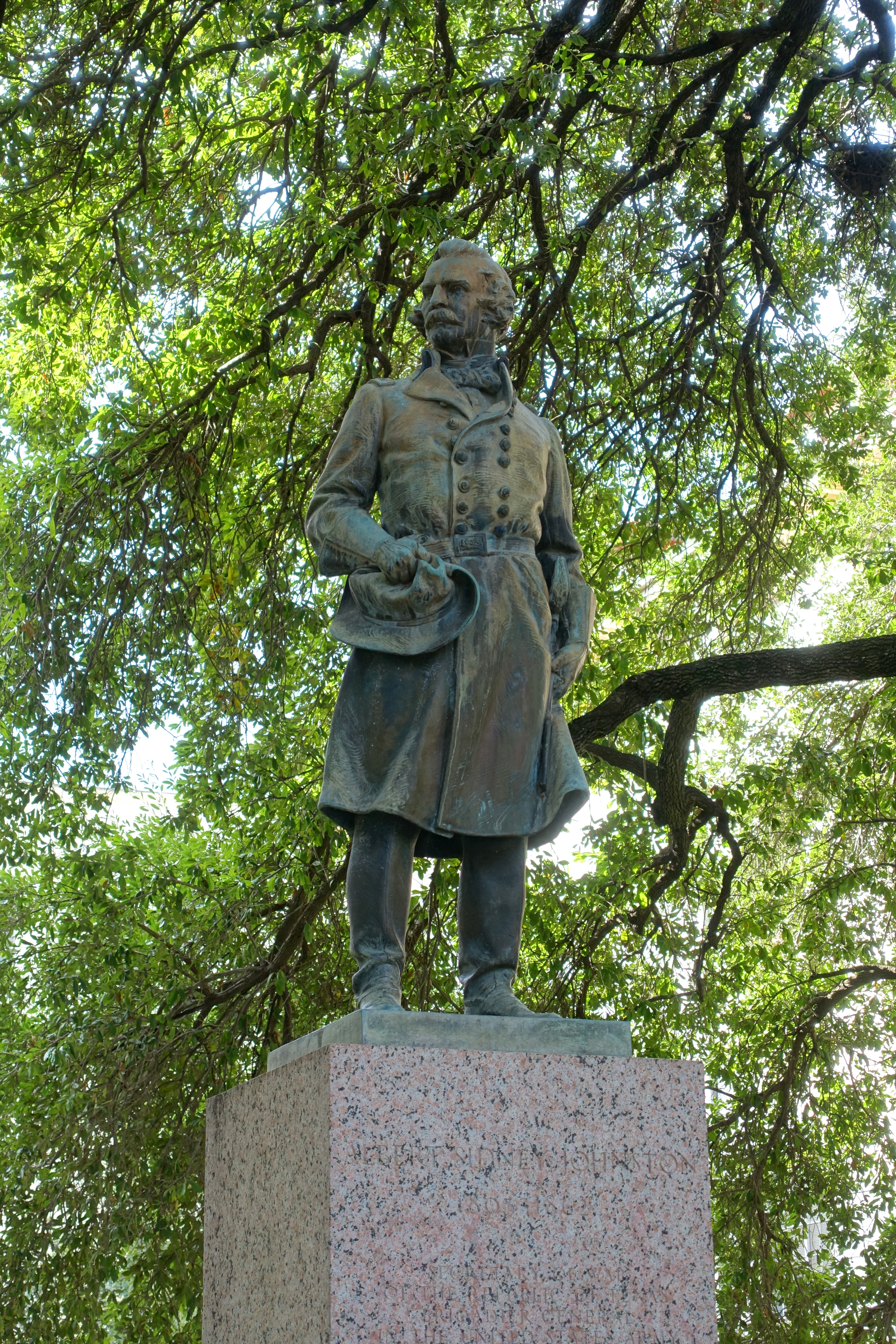 Albert Sidney Johnston by Pompeo Coppini - University of Texas at Austin, Austin, Texas, USA. Created circa 1923. This artwork is in the public domain because it was published in the United States between 1923 and 1963, with its copyright not renewed. Smithsonian SIRIS Control Number: IAS 77006159.